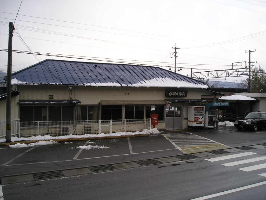 Ina-Oshima Station on the JR Central Iida Line, in Matsukawa Town, Nagano Prefecture, Japan